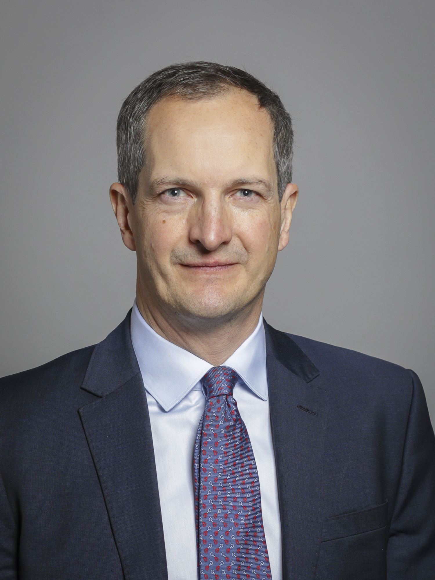 Official portrait of Lord Bethell 3×4 portrait of Lord Bethell